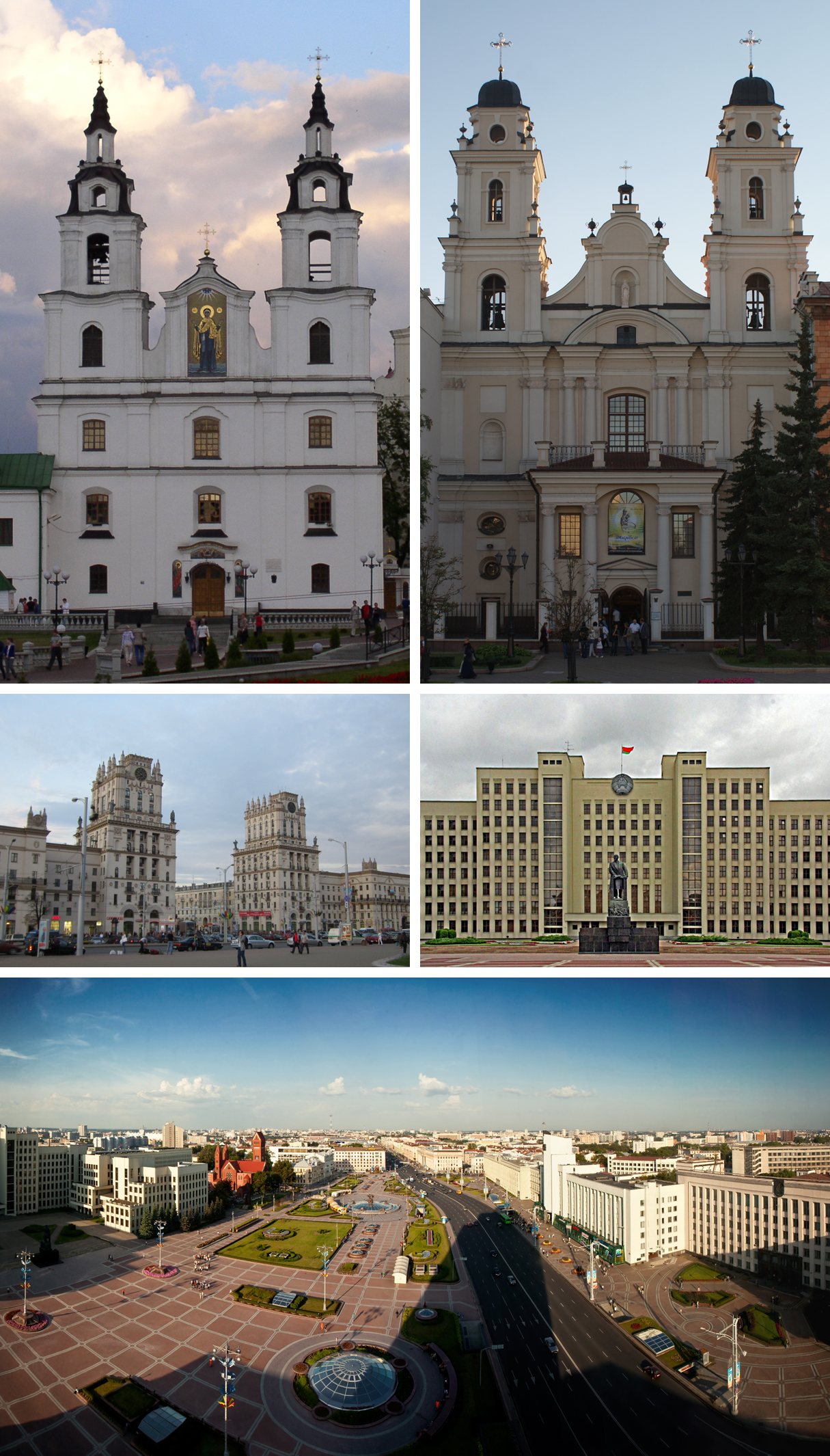 Montage of Minsk, Belarus